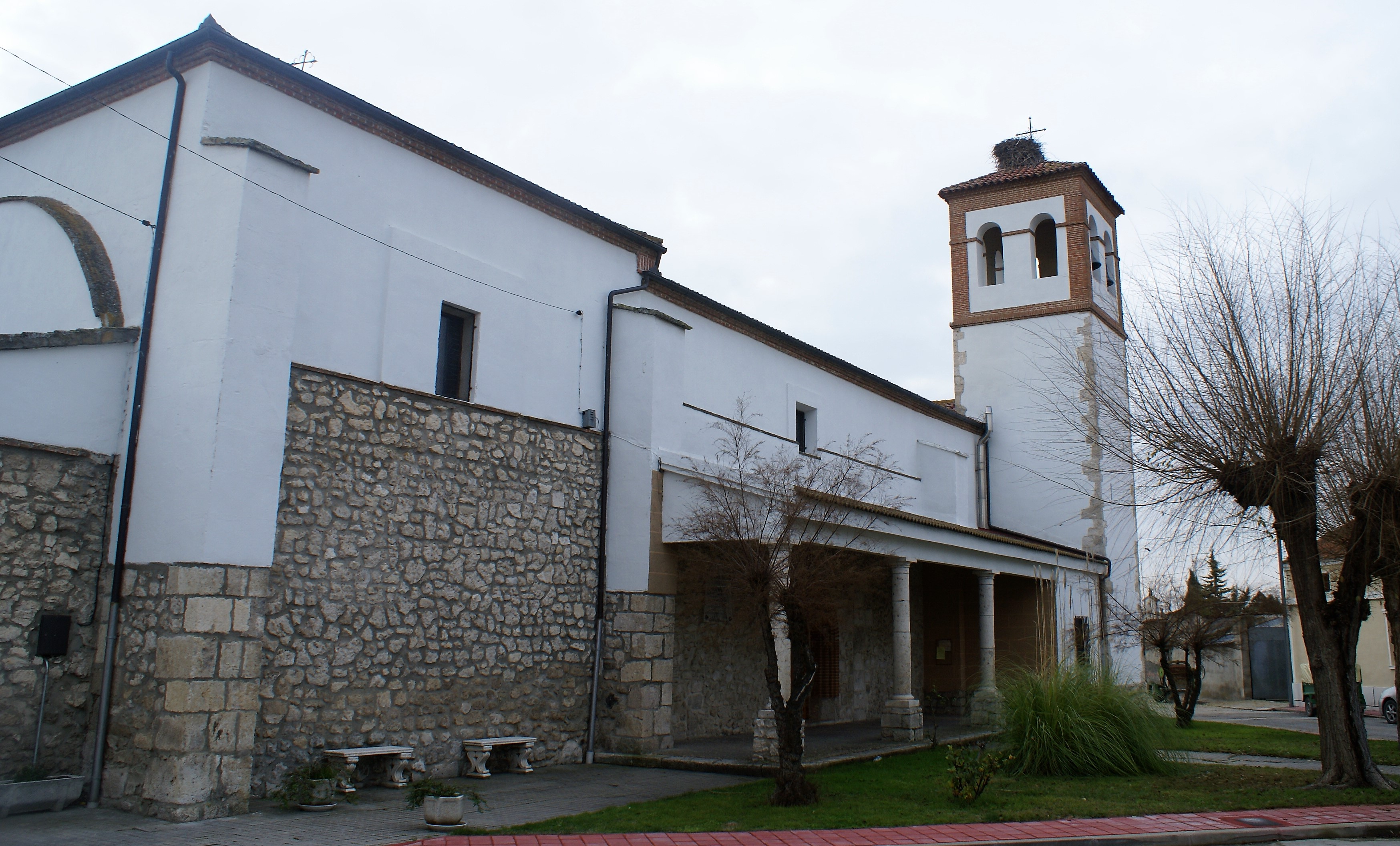 Church of Saint Mary of the Visitation, Fresneda de Cuéllar, Segovia, Spain.